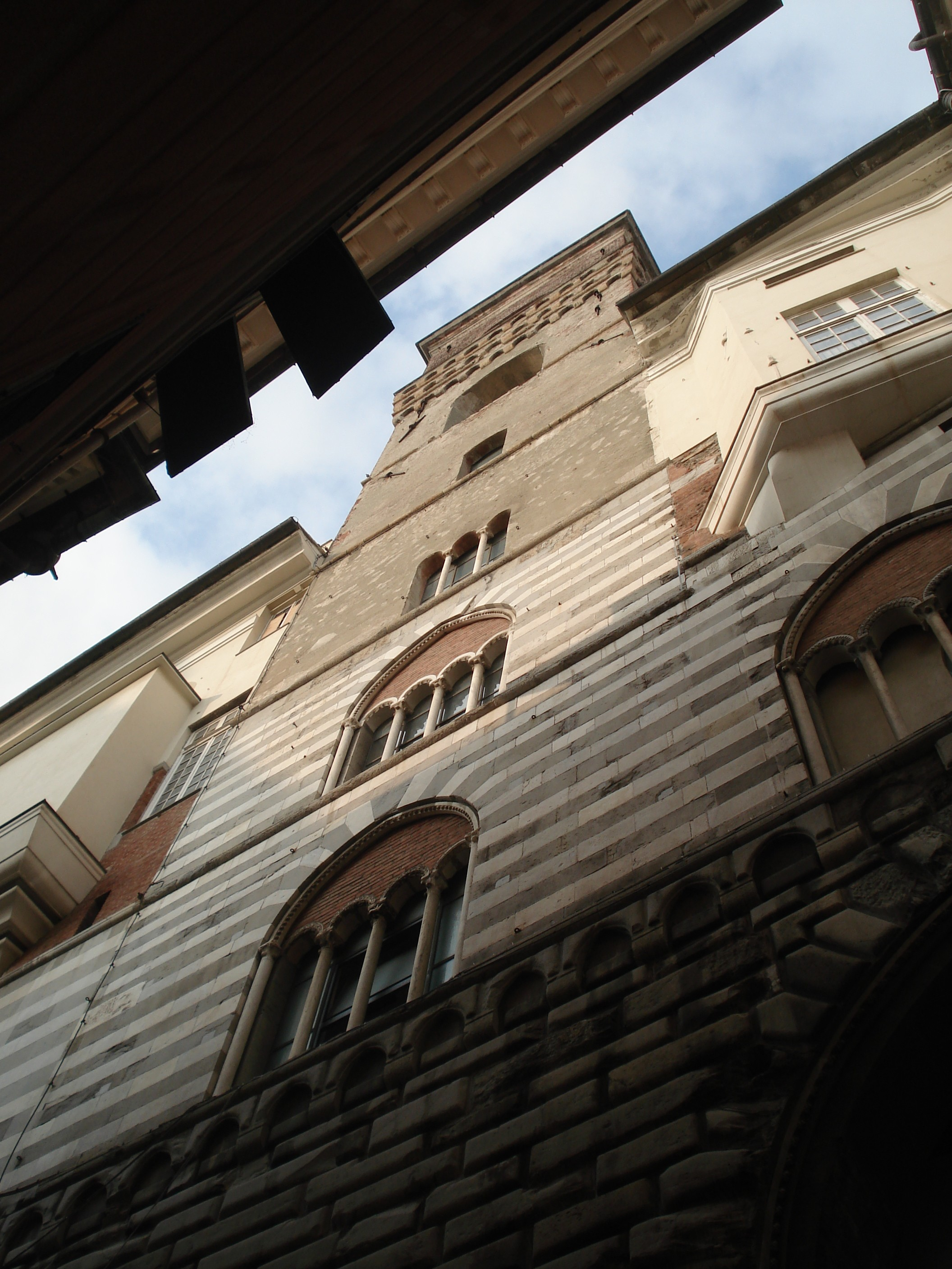 Grimaldina Tower of Doge's Palace in Genoa